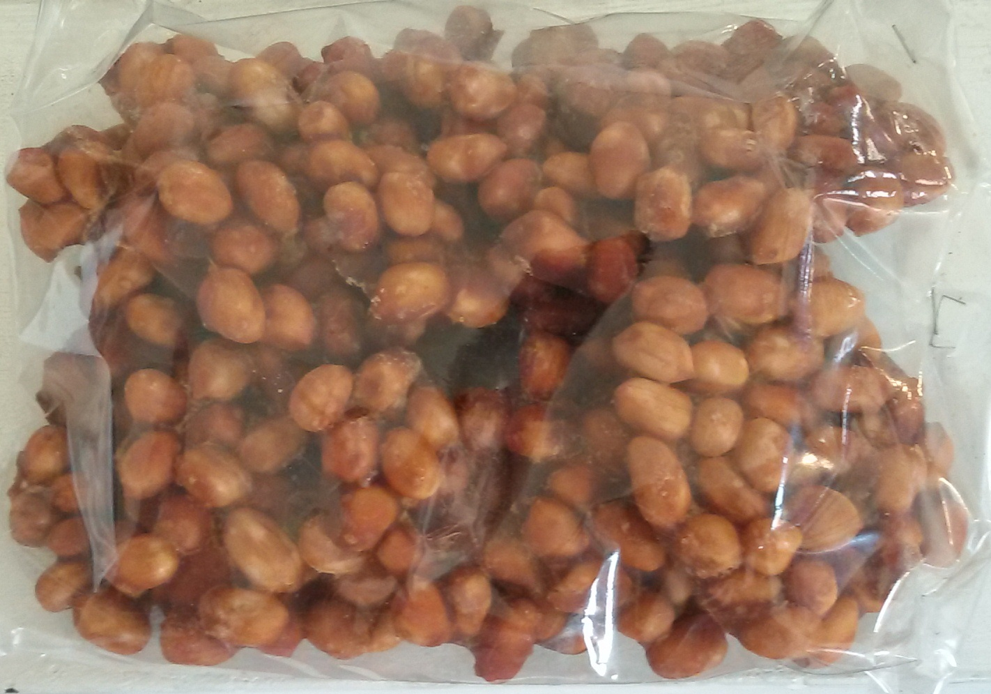 Ampyang kacang or Gula kacang